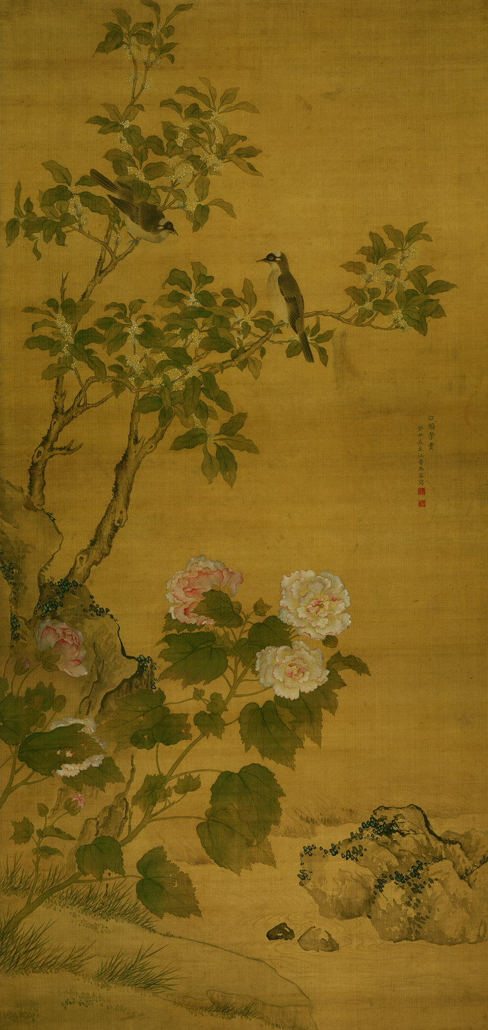 Chinese Bulbul, Ma Quan, Tianjin Museum